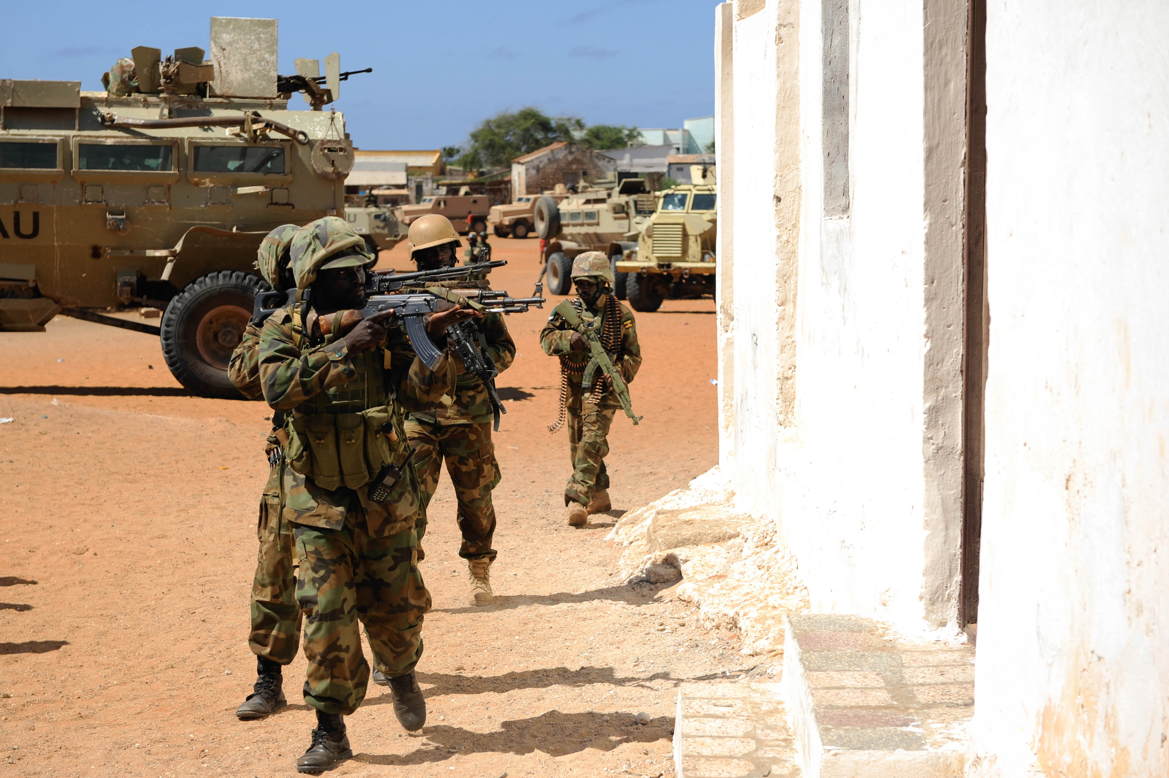 Members of the Ugandan Special Forces, as part of the African Union Mission in Somalia, take part in an operation to clear a suspected building on October 6 in the town of Barawe, Somalia. The town was captured earlier that day from the extremist group Al Shabab by forces belonging to the African Union Mission in Somalia and the Somali National Army. AMISOM Photo / Tobin Jones